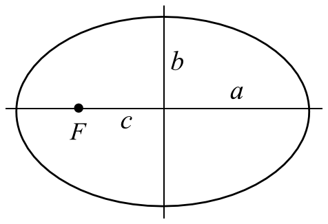 ellips